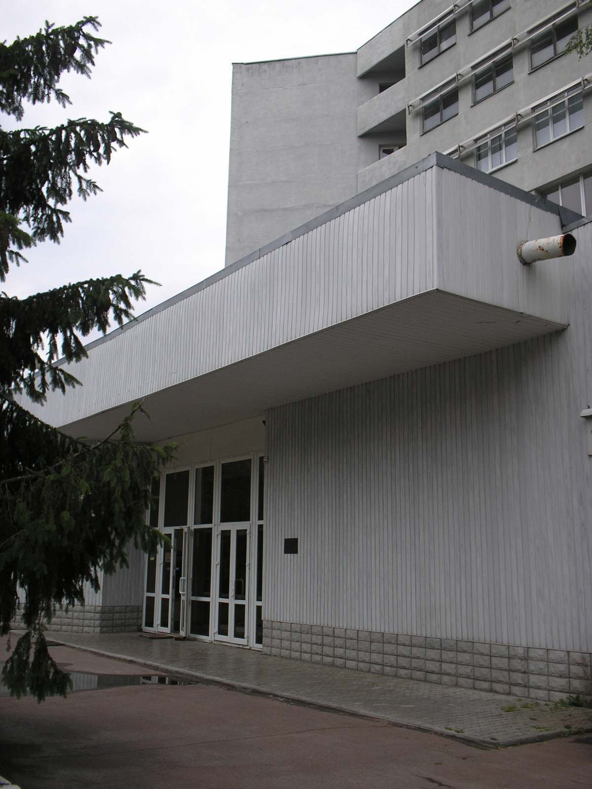 ATN